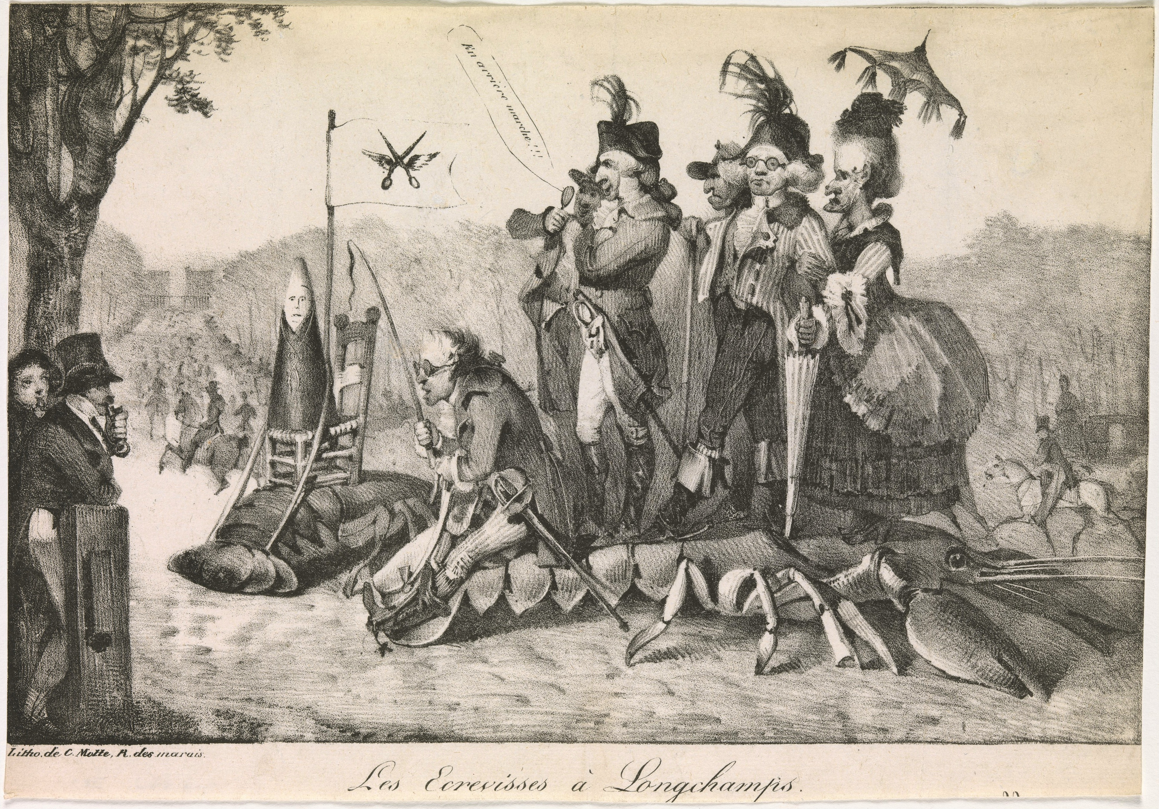 Satire on censorship and the royalist press, two of the pillars of Ultra opinion; a race at Longchamps with, in the distance, riders on horses moving along the Champs-Élysées towards the (unfinished) Étoile arch, while in the foreground a deviation from the race by two odd carriages each pulled by a crayfish going backwards (facing the opposite direction from their riders): in the centre, one of these carriages bears a group comprising wigged men in uniform ('voltigeurs' identified by 'Le Miroir' as press censors and Academicians) and a woman in outdated dress ('La Quotidienne'), one of whom has a speech bubble with the motto of the Order of the Crayfish "En arrière, marche!!!", while behind them, to the left, a smaller carriage flying the banner with the scissors of censorship and bearing the 'éteignoir' (candle-snuffer)-shaped or 'pain de sucre' (sugar-loaf) figure of the censor Marie-Joseph Pain on a chair (the censor Lachaize); in the foreground to left, two bystanders, one (possibly Delacroix himself) blowing a whistle at the at the two carriages; published in 'Le Miroir', 4th April 1822 Lithograph.